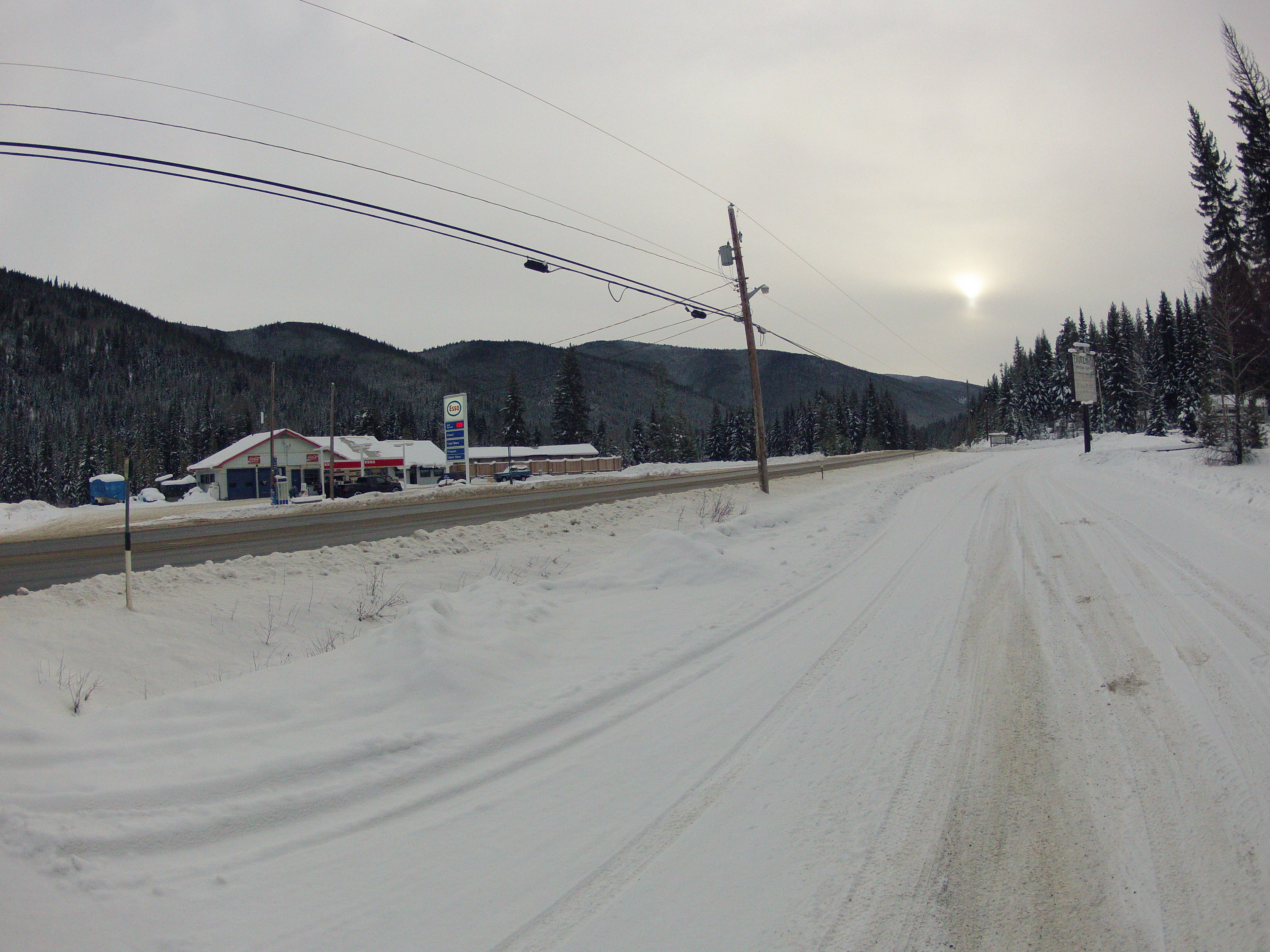 ESSO in Eastgate